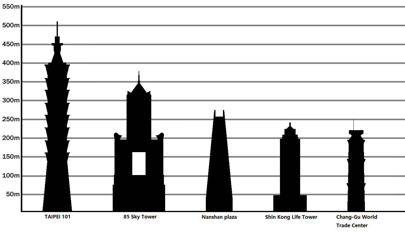 Use for users knows how tall for each buildings in Taiwan